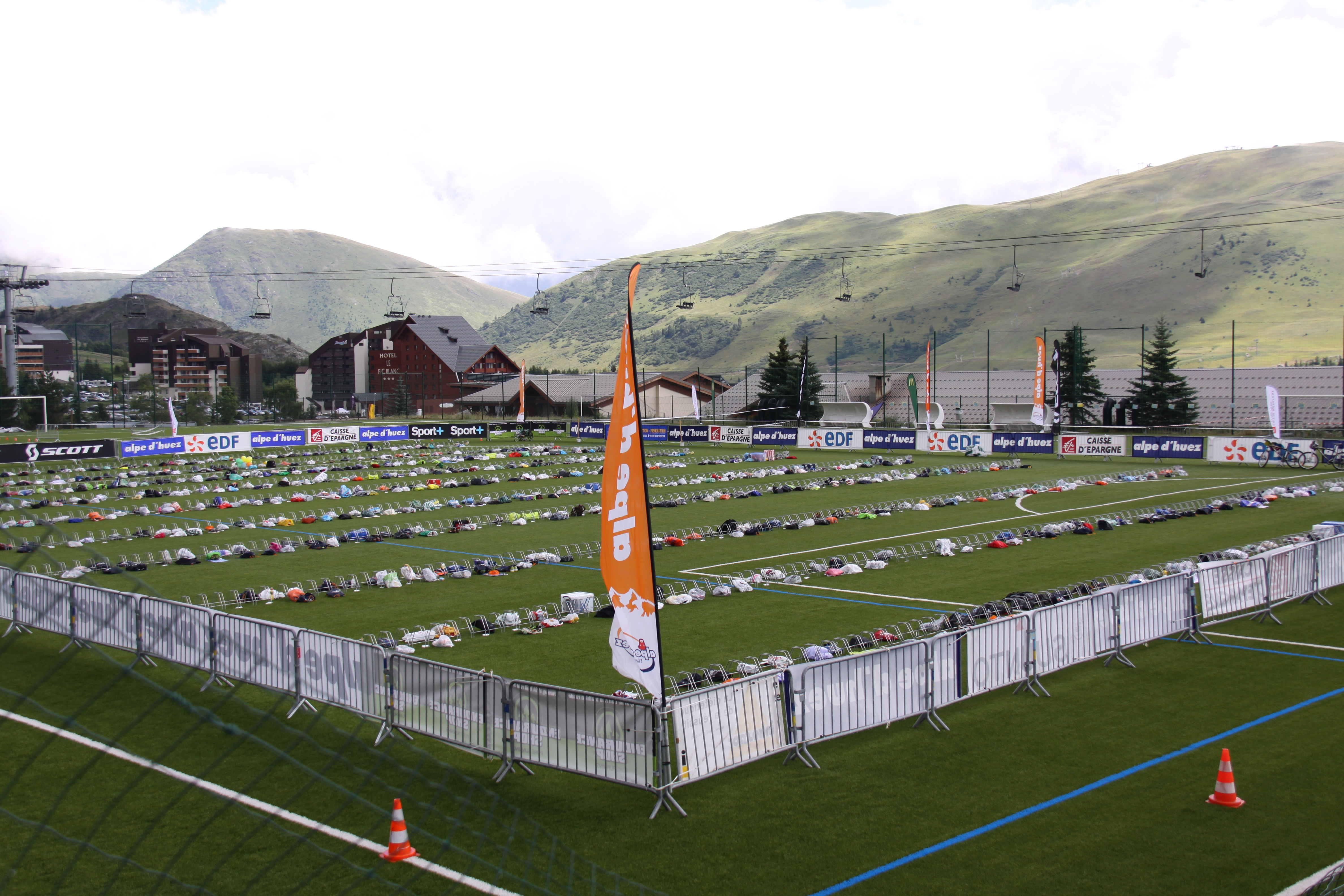 The triathlon transition area in Alpe d'Huez.